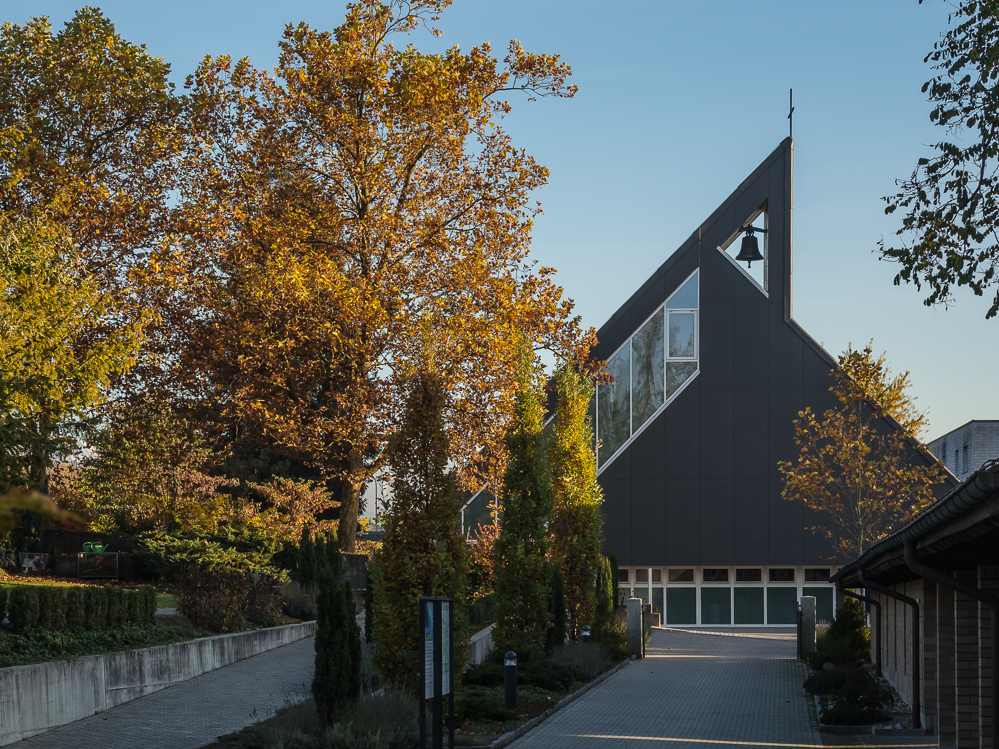 Catholic Church "St. John" of Muensingen CH from North